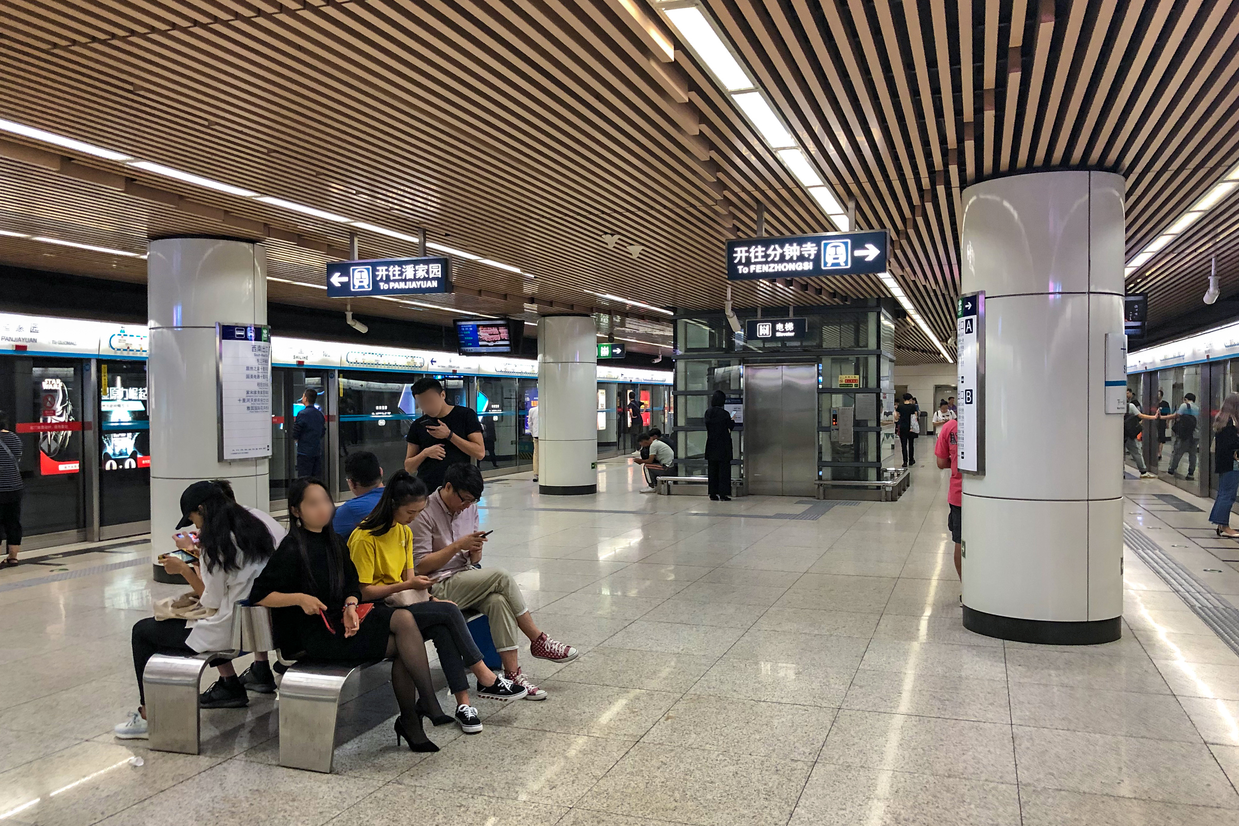 Not as crowded as I thought it should have been.